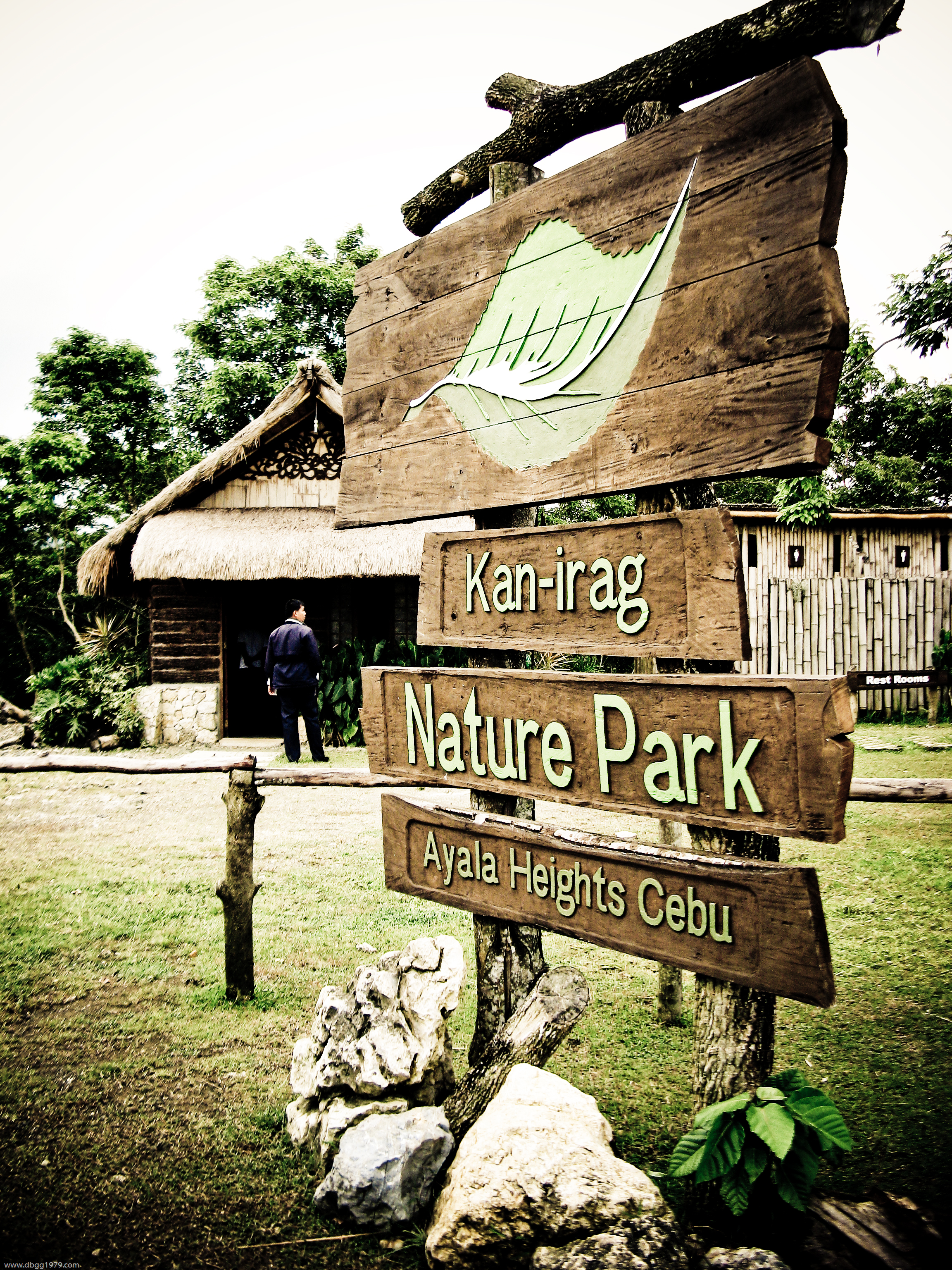 Kan-irag Nature Park Ayala Heights Cebu, Philippines